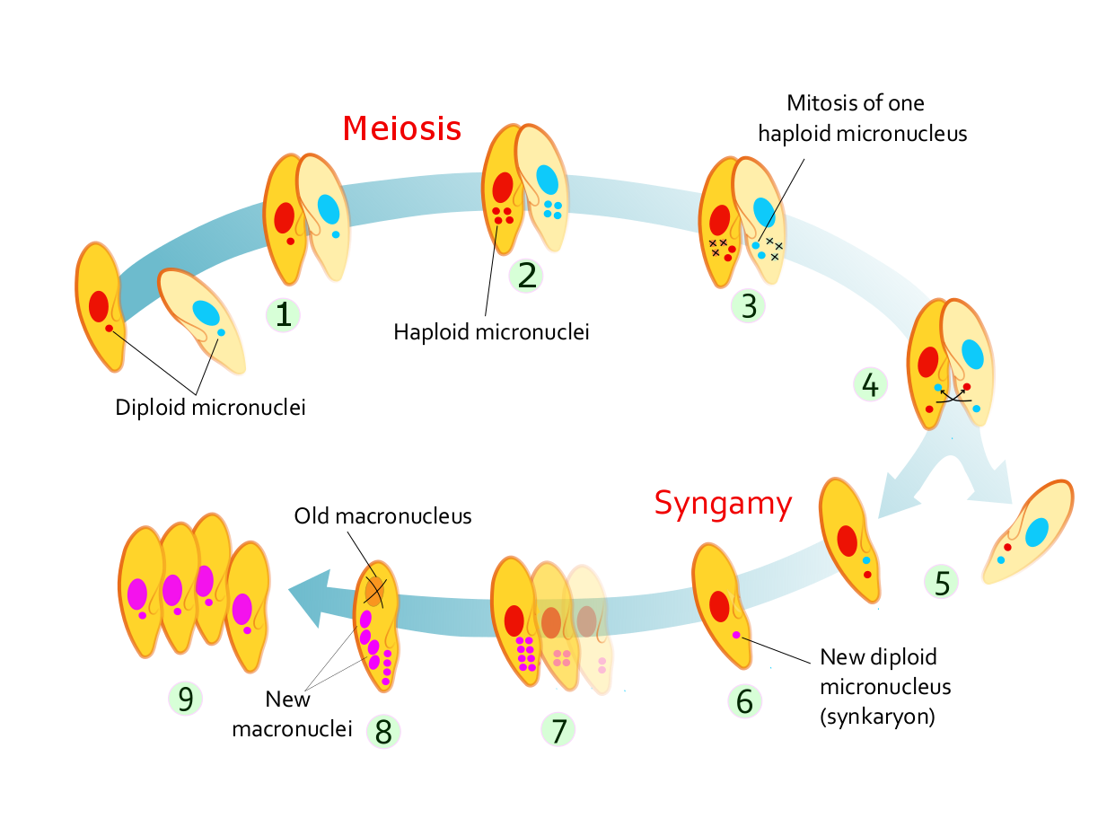 Stages of ciliate conjugation in .png format.